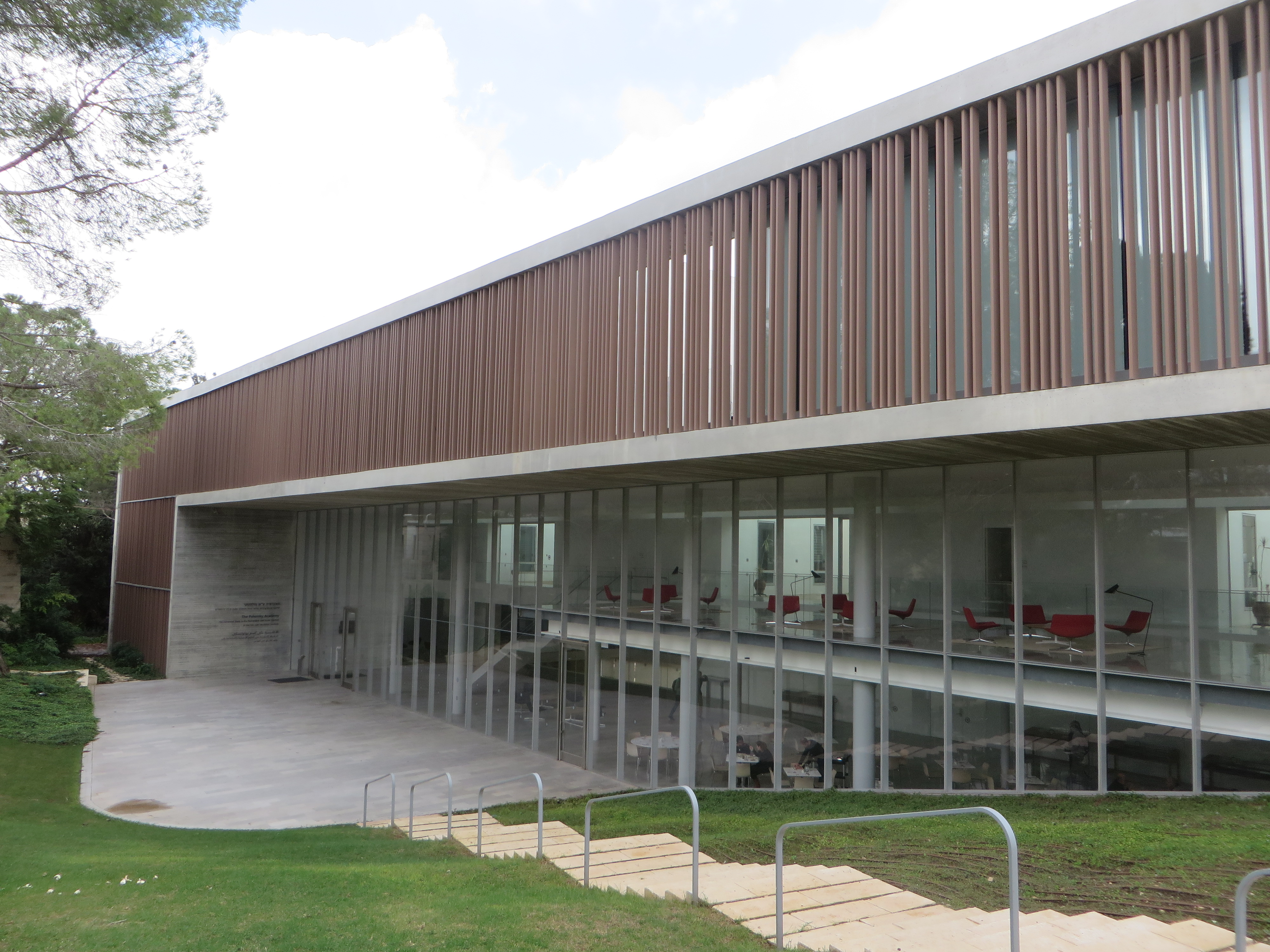 Polonsky Academy for Advanced Studies building, next to the Van Leer Jerusalem Institute, Jerusalem, Israel.